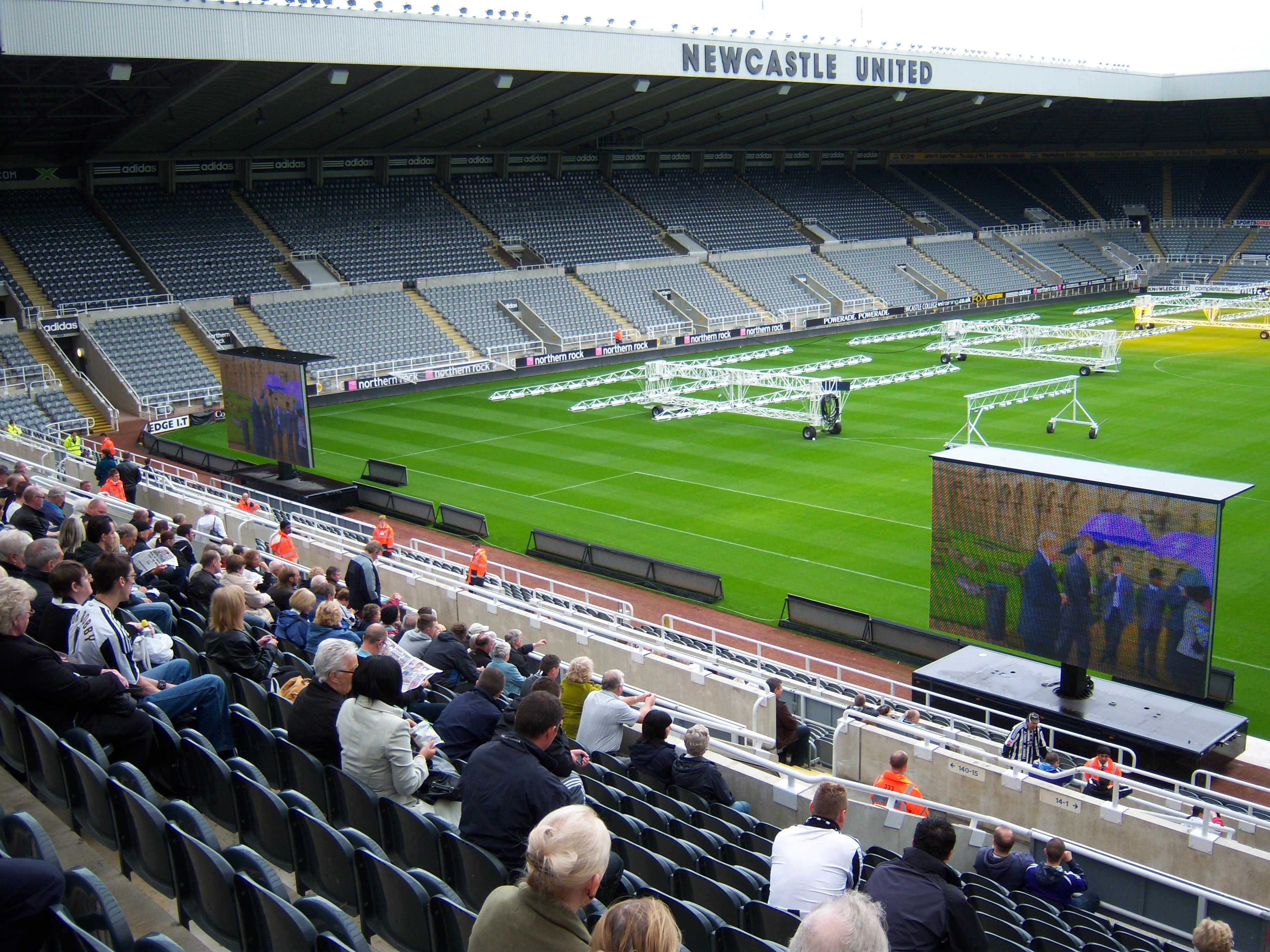 Sir Bobby Robson's thanksgiving service being broadcast live from Durham Cathedral into the Leazes End at St James' Park in Newcastle upon Tyne, approximately 1 hour before the service began at 2pm.